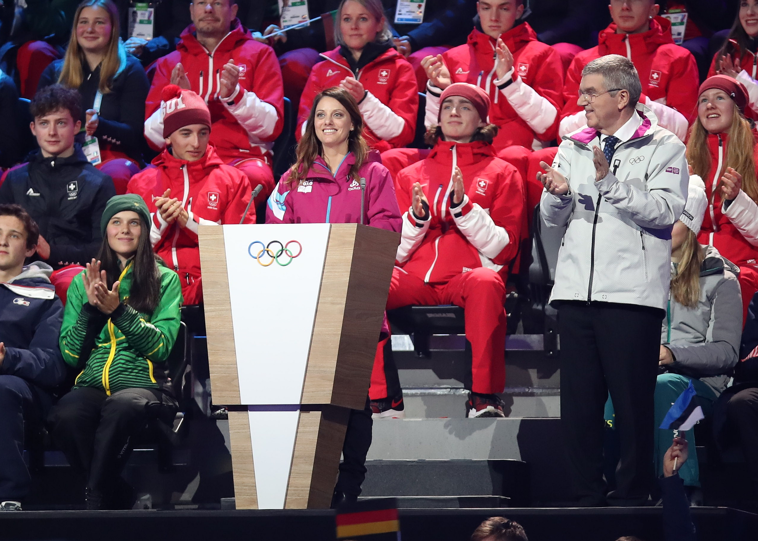 Opening Ceremony YOG 2020.